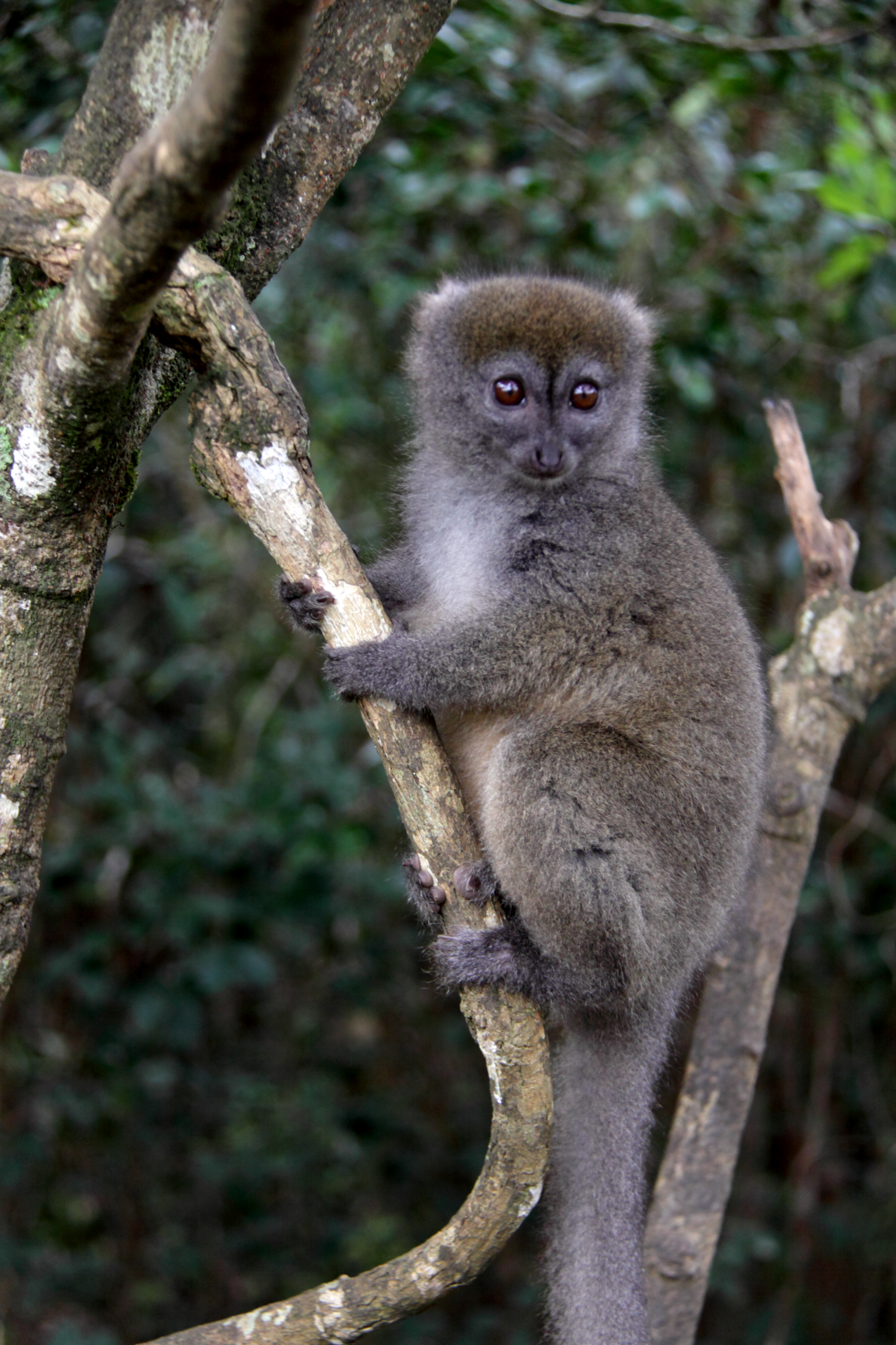 lemurien of madagascar